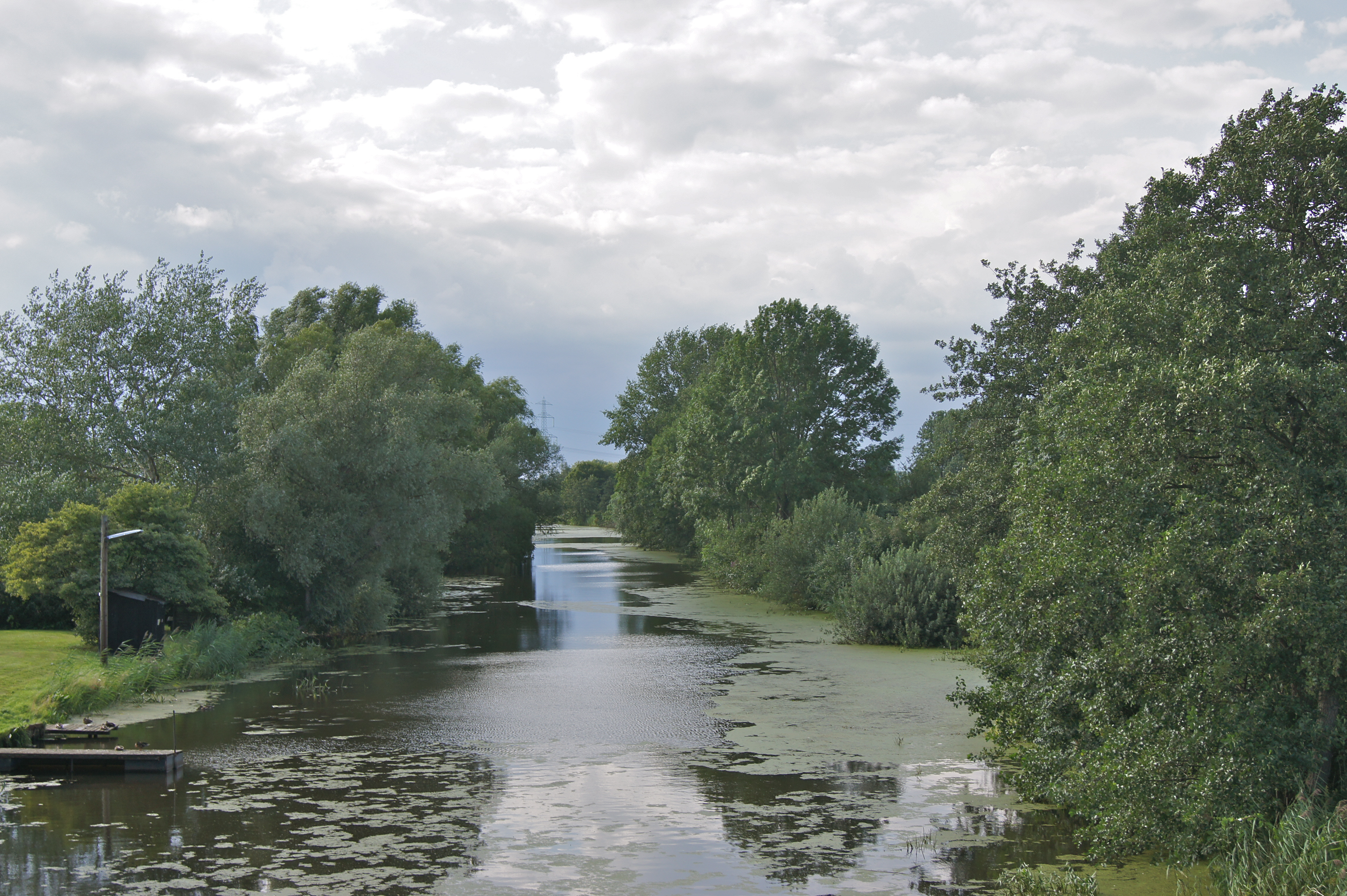 Hamburg (Reitbrook), Germany: The river Gose Elbe